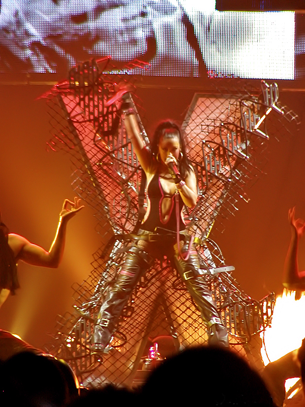 Christina Aguilera singing "Genie in a Bottle" on her Stripped tour